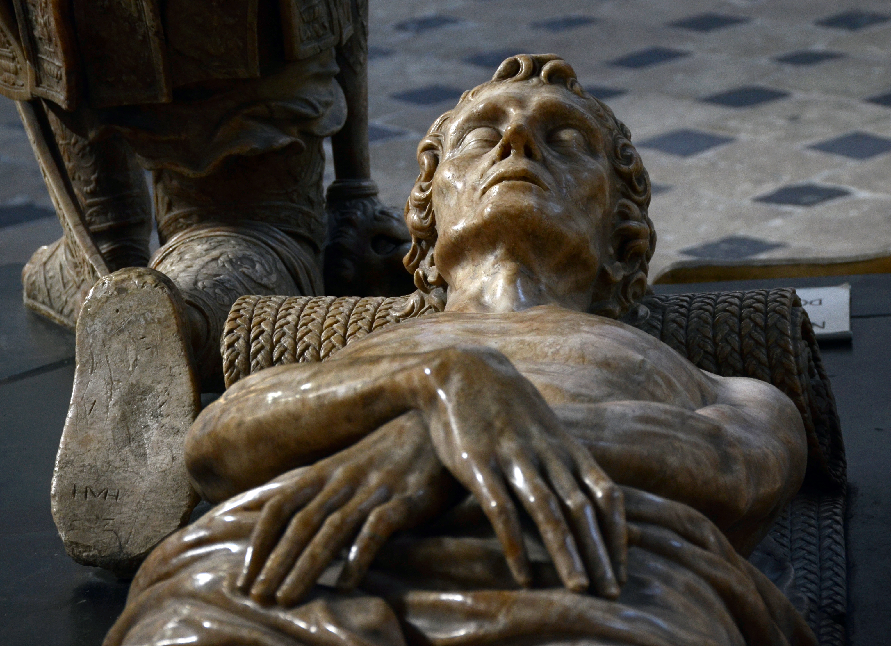 Mausoleum of Engelbert II of Nassau and Cimburga van Baden in the Grote Kerk or Onze-Lieve-Vrouwekerk (Church of Our Lady) in Breda : detail of the recumbing figure of Engelbert II.